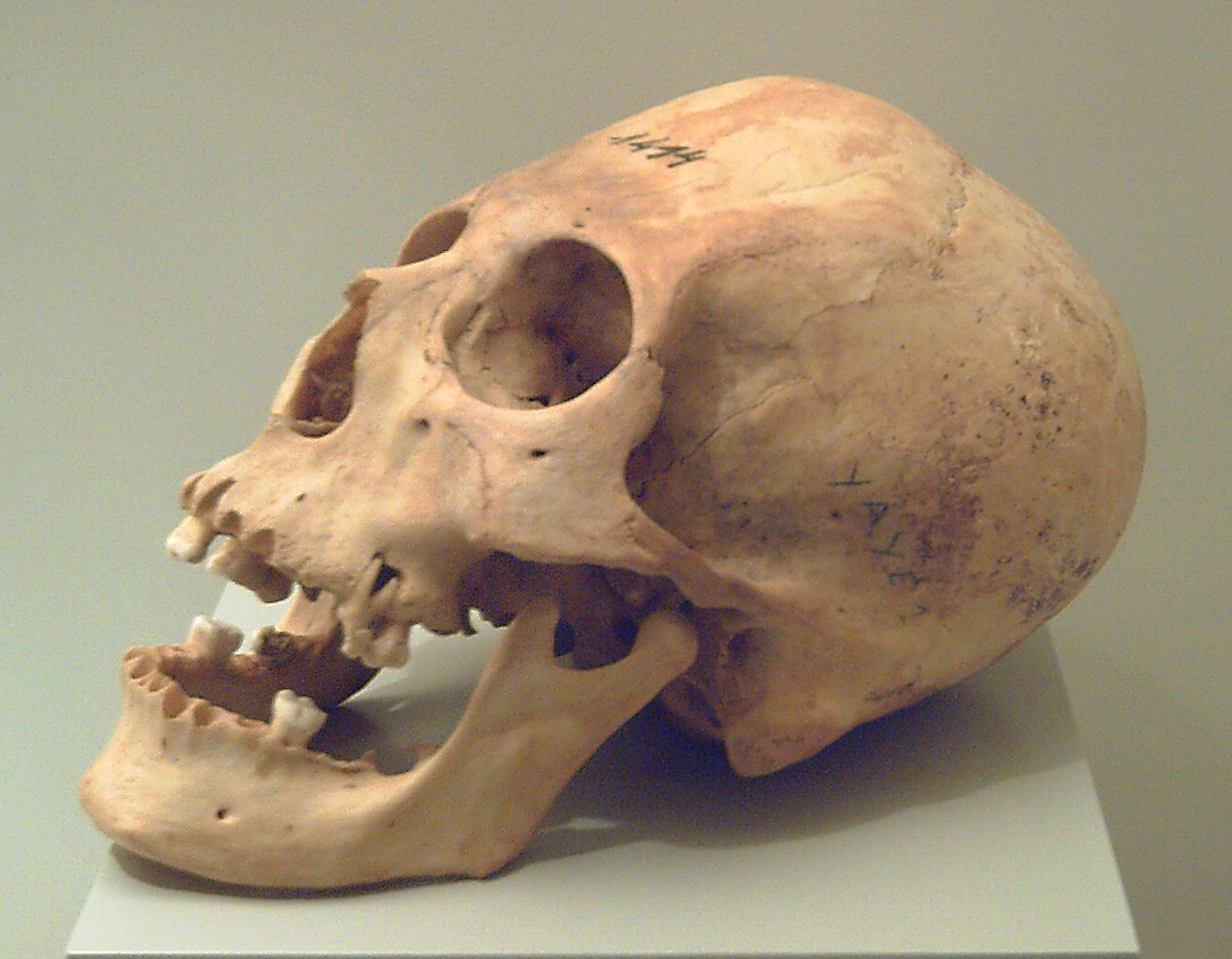 A skull deformed for aesthetic reasons. Phase II of San Pedro de Atacama Culture.